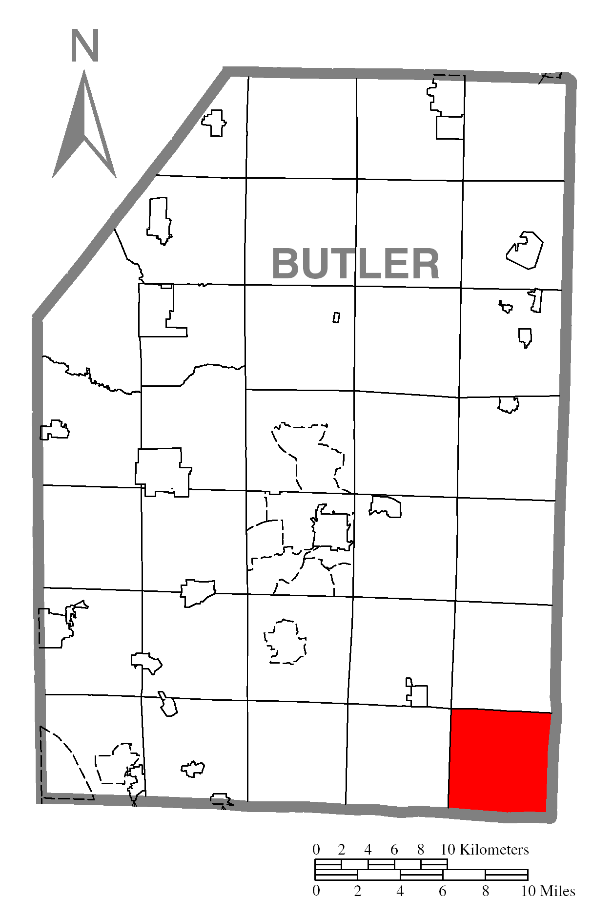 A map of Butler County showing Buffalo Township, Pennsylvania (alternate) highlighted on the map.